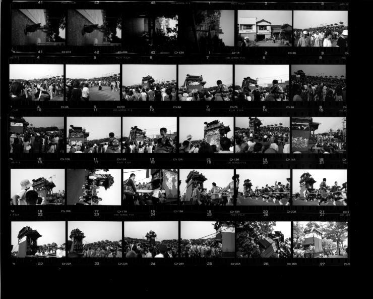 Contact sheet of 35mm (24x36 mm) black-and-white film.